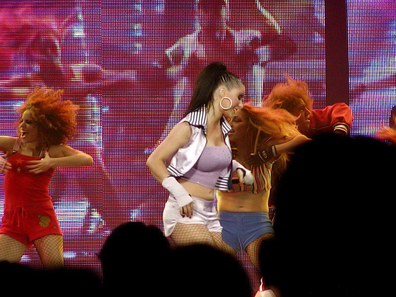 Christina Aguilera singing "What A Girl Wants" on her Stripped tour